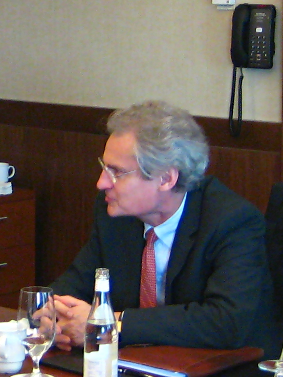 SAP CEO Henning Kagermann with the Enterprise Irregulars at the SAP Influencer Summit, December 2007, Boston